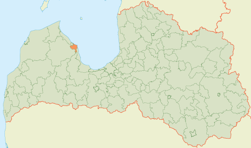 Location map of Mērsrags municipality